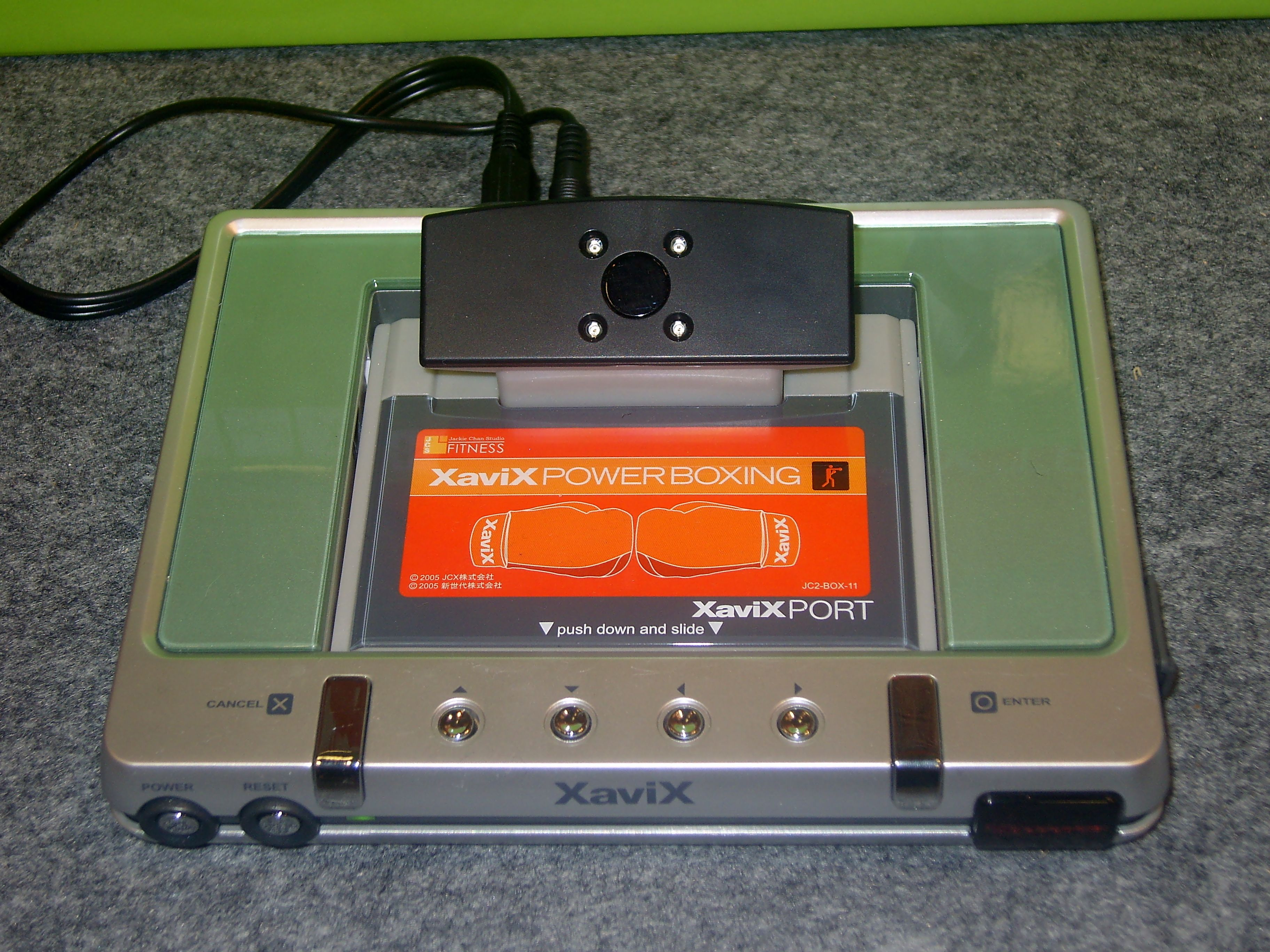 2007 Taipei IT Month: XaviXPORT